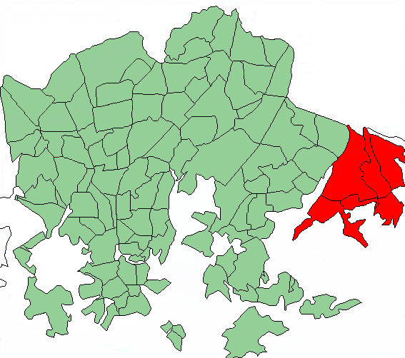 Map of Helsinki highlighting Vuosaari self-modified version of a public domain map author: Hyperboreios